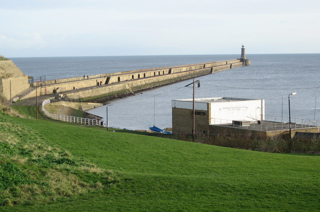 Tynemouth North Pier